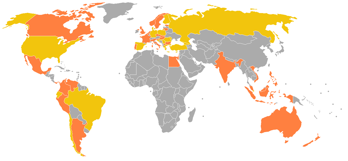 Countries which have their own version of the TV show, Wheel of Fortune, as listed on the wikipedia article. It is possible this is not complete. Yellow = current broadcasts Orange = past broadcasts